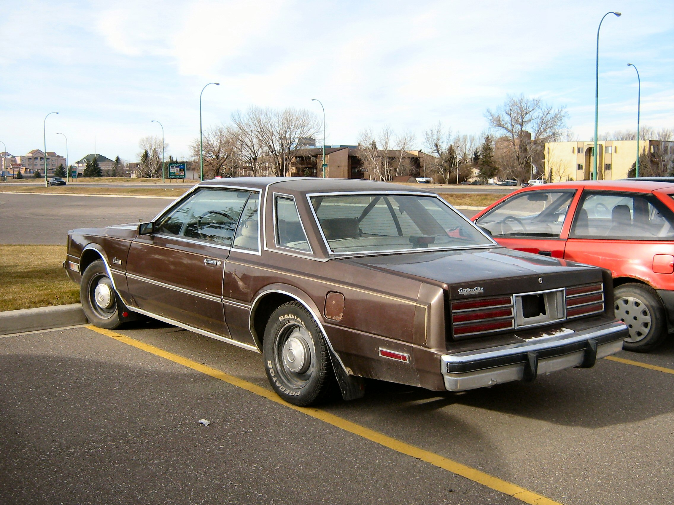 Chrysler Cordoba - unplated and sitting outside Canadian Tire.